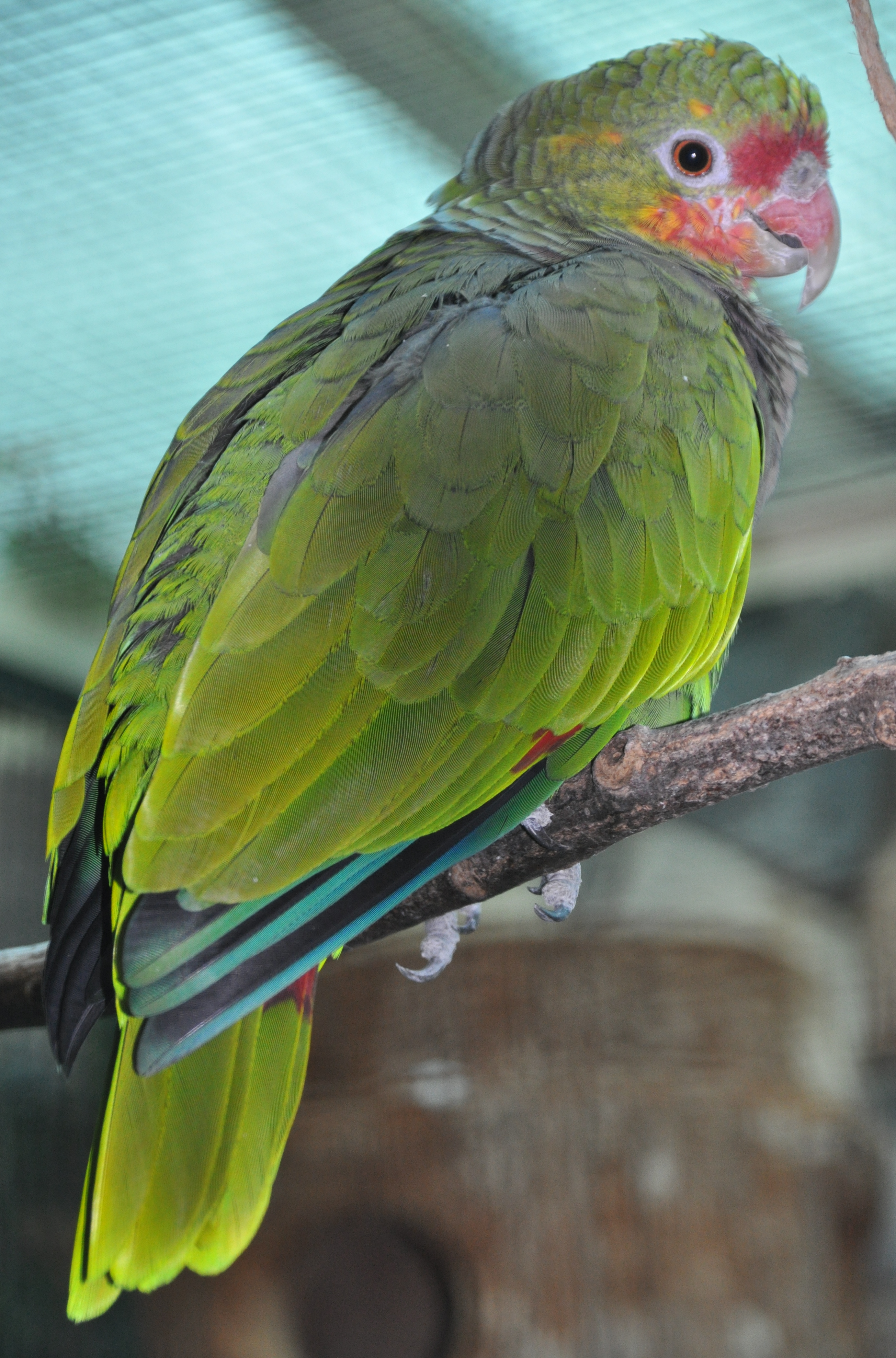 Vinaceous Amazon at the Walsrode Bird Park, Germany.